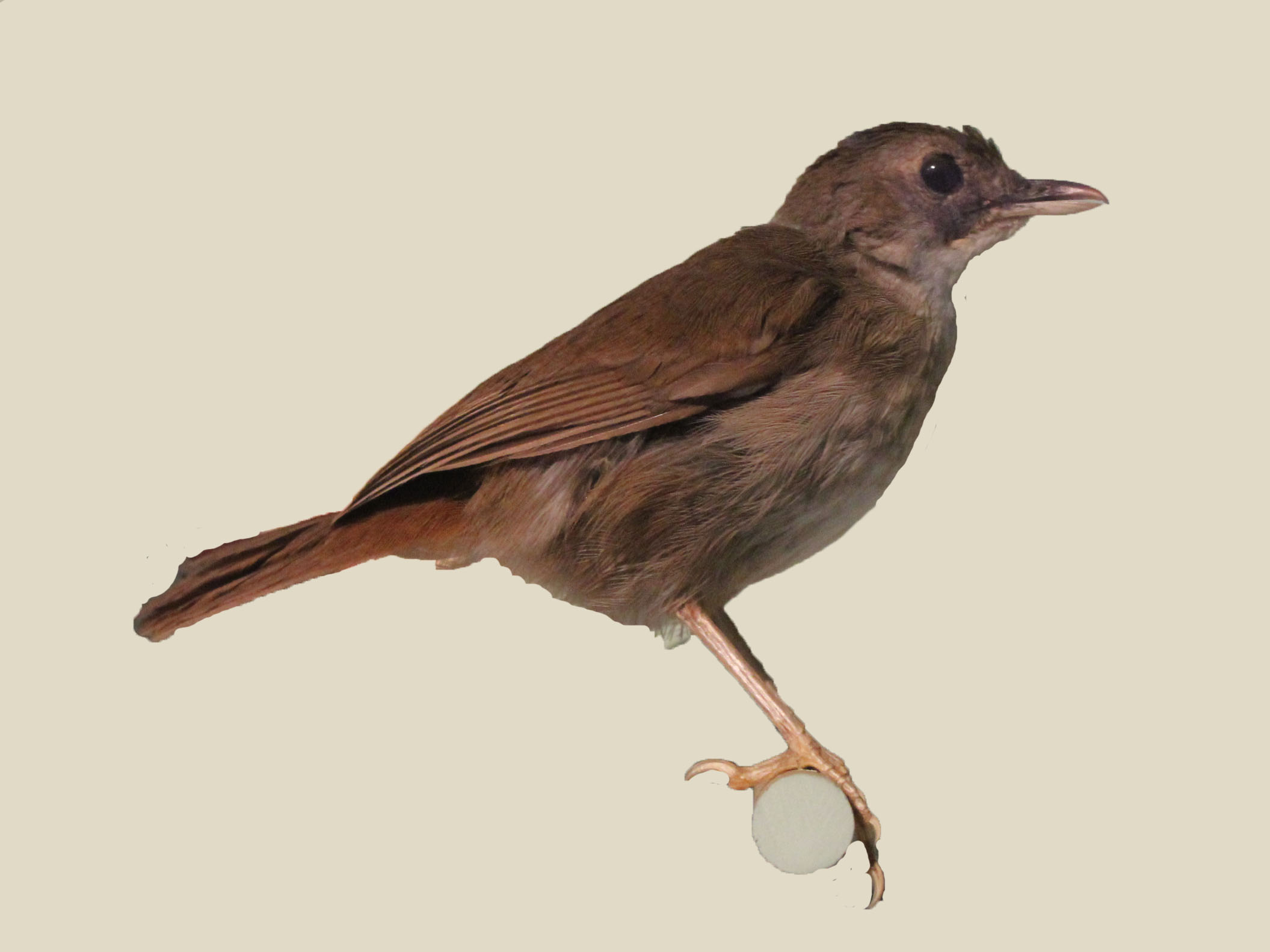 Pale-breasted Illadopsis (Illadopsis rufipennis). Photograph of a specimen at Nairobi National Museum in Nairobi, Kenya.